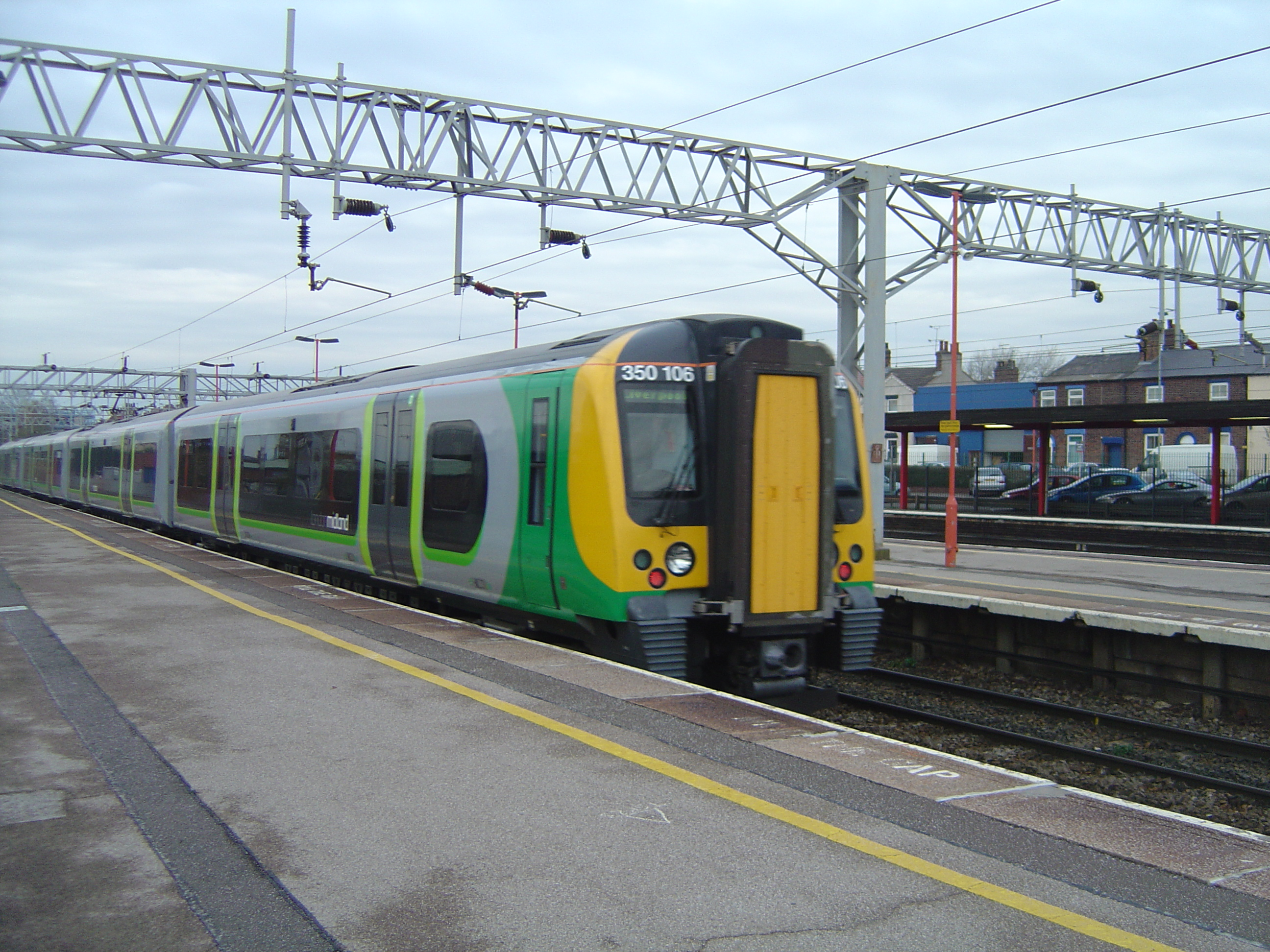 British Rail Class 350 in London Midland livery at Stafford